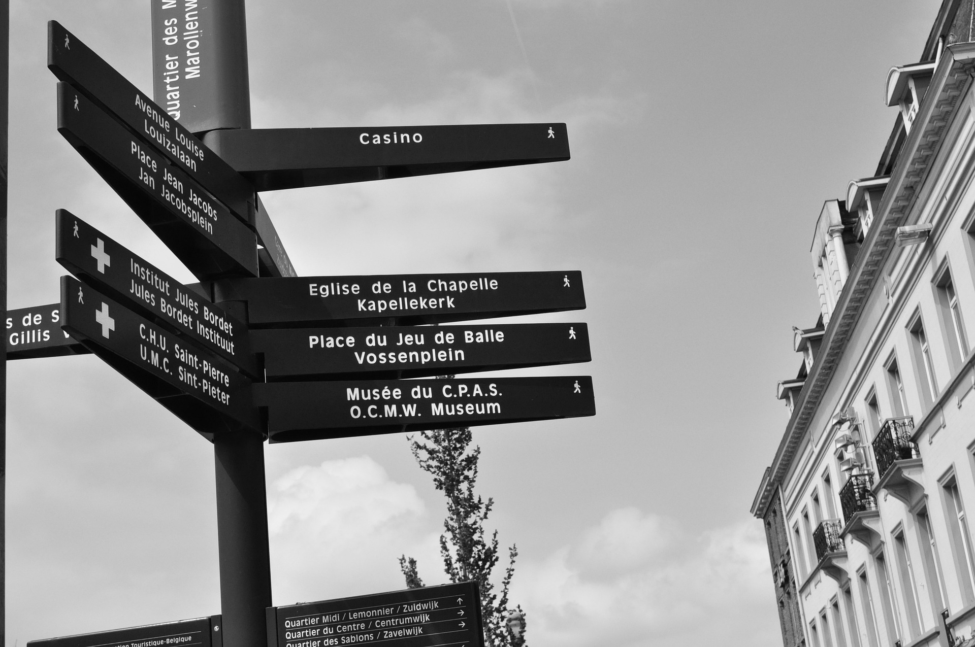 Most traffic signs in Brussels are bilingual: both French and Flemish. This is a result of strong linguistic tensions in the Flanders region of Belgium.